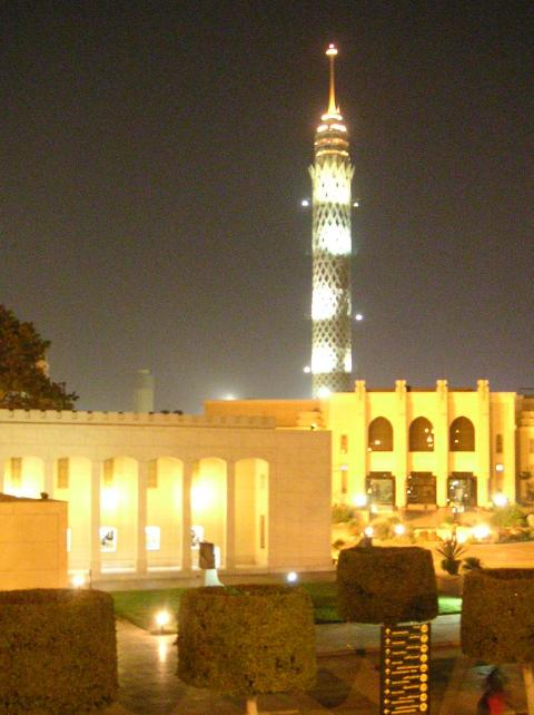 Al Borg al Qahira / Cairo Tower (Cairo Opera in foreground) Cairo, Egypt